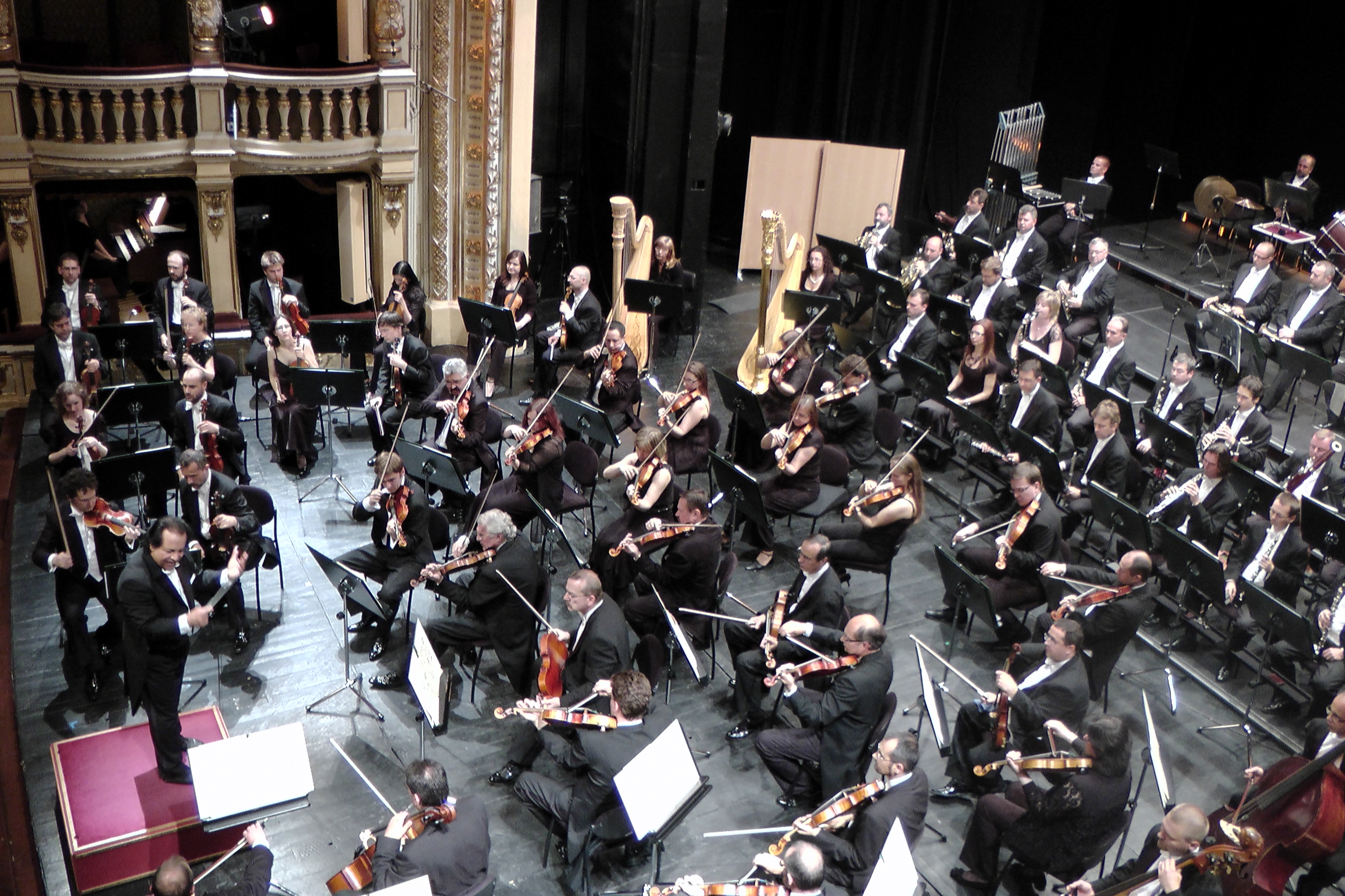 Slovak Philharmonic Orchestra with guest Persian conductor Ali (Alexander) Rahbari during a concert in Bratislava in 2010 - Photo by Pejman Akbarzadeh / Persian Dutch Network